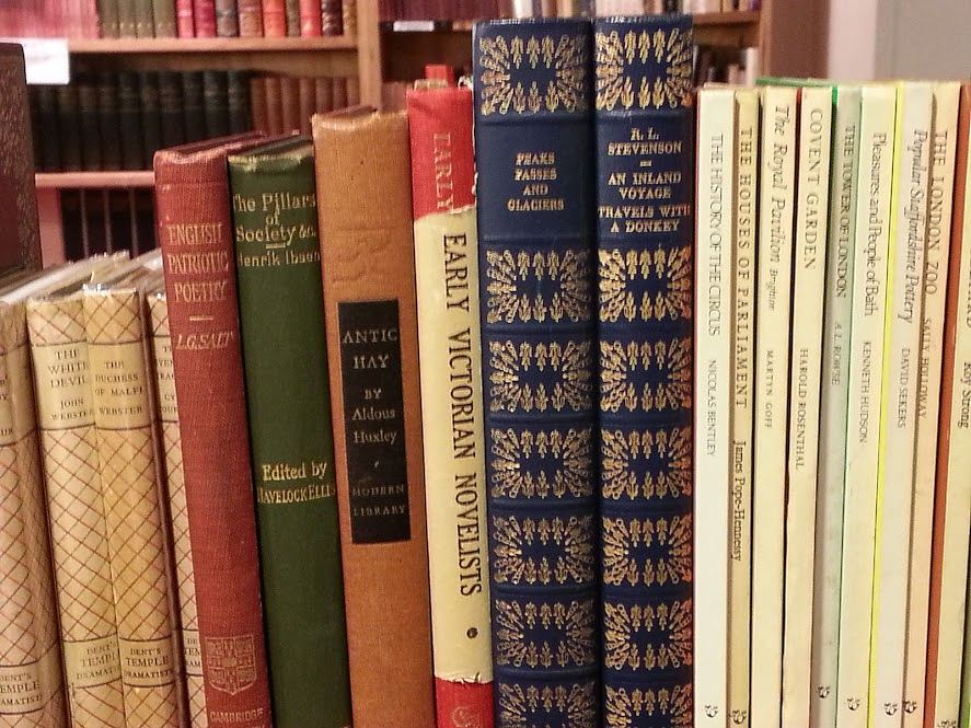 The spines of various books for sale in a second hand bookshop in Eumundi, Queensland.